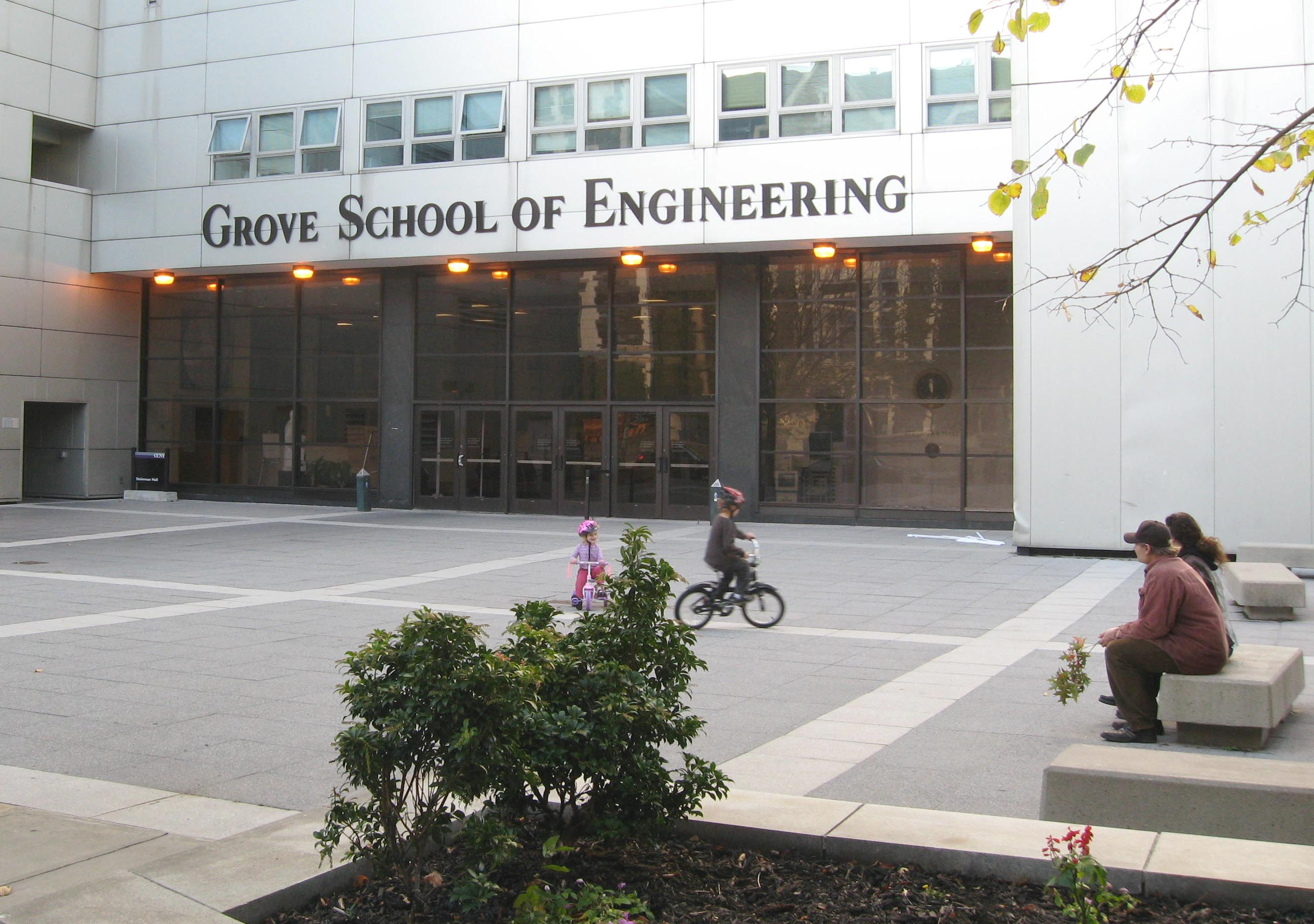 Looking northwest at entrance plaza of Grove Engineering School of City College of New York on a sunny late afternoon.